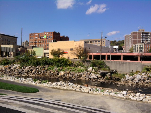 Downtown Fitchburg from Riverfront Park